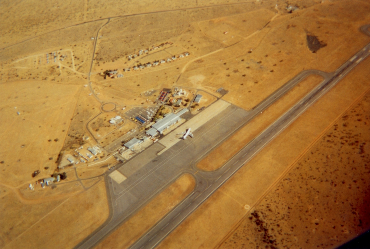 Arial view from Flight SA076 flying in over Windhoek Hosea Kutako International Airport around 14.20 on 1 August 2004. Air Namibia's Boeing 747-400 Combi is seen standing on the tarmac.